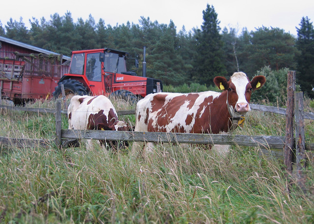 Two polled Ayrshire cows with EU identification tags in the ears. Cows from childhood home, 2005 Today's farming in Finland is growing more rare while it's cheaper to bring products from other countries. Farms that are still standing are transforming in to huge farms to make enough profit to live on. But in traditional finnish farming it has belonged to know the name of every animal and treat them with respect even tought you are making your living out of them.